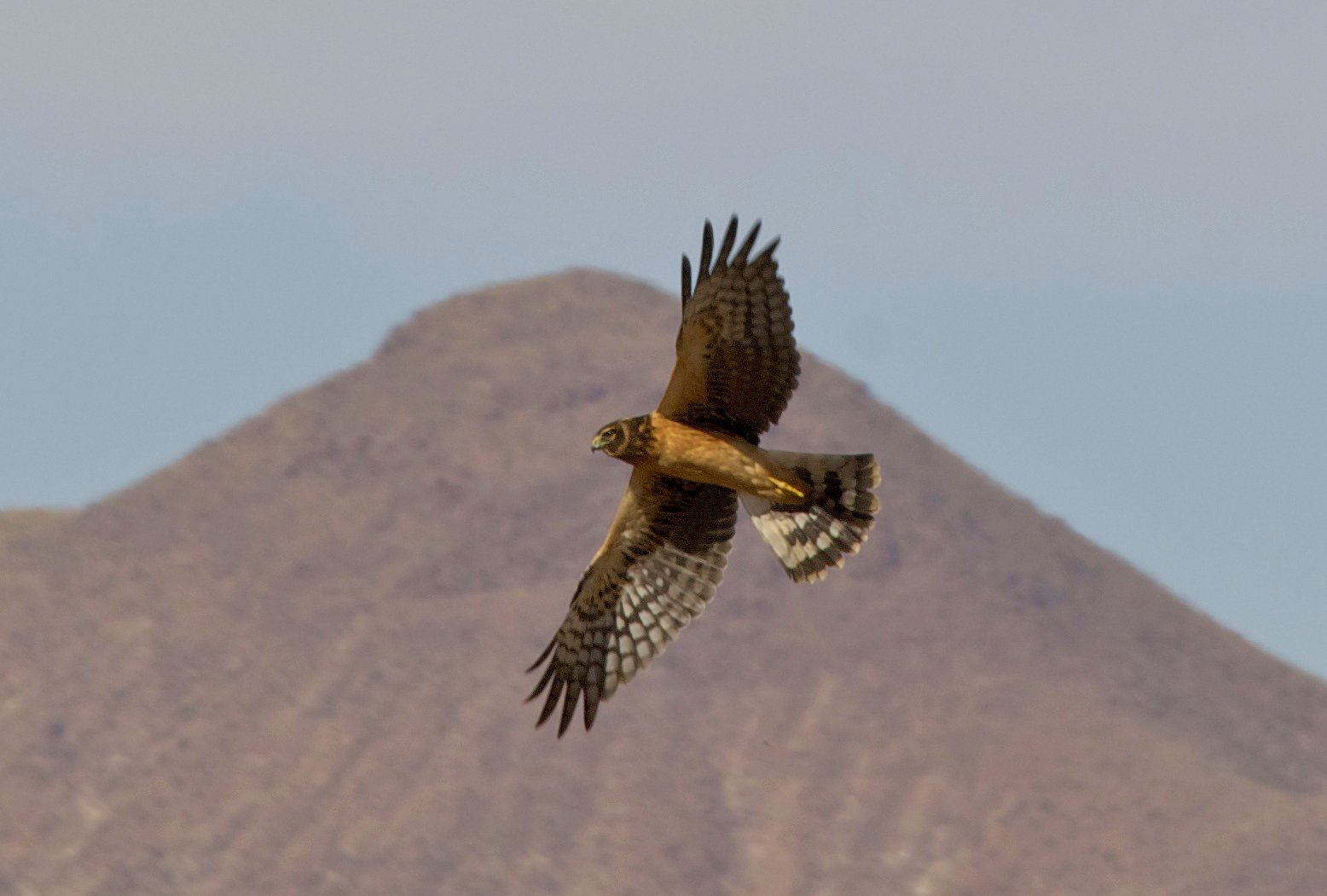 A female Northern Harrier Circus hudsonius flying at Bosque del Apache National Wildlife Refuge, New Mexico, USA.